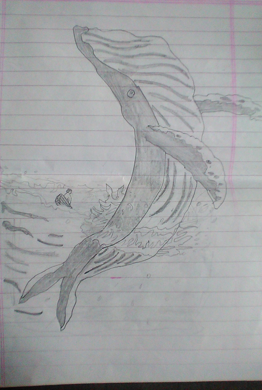 Blue whale game This photo has been taken in the country: India